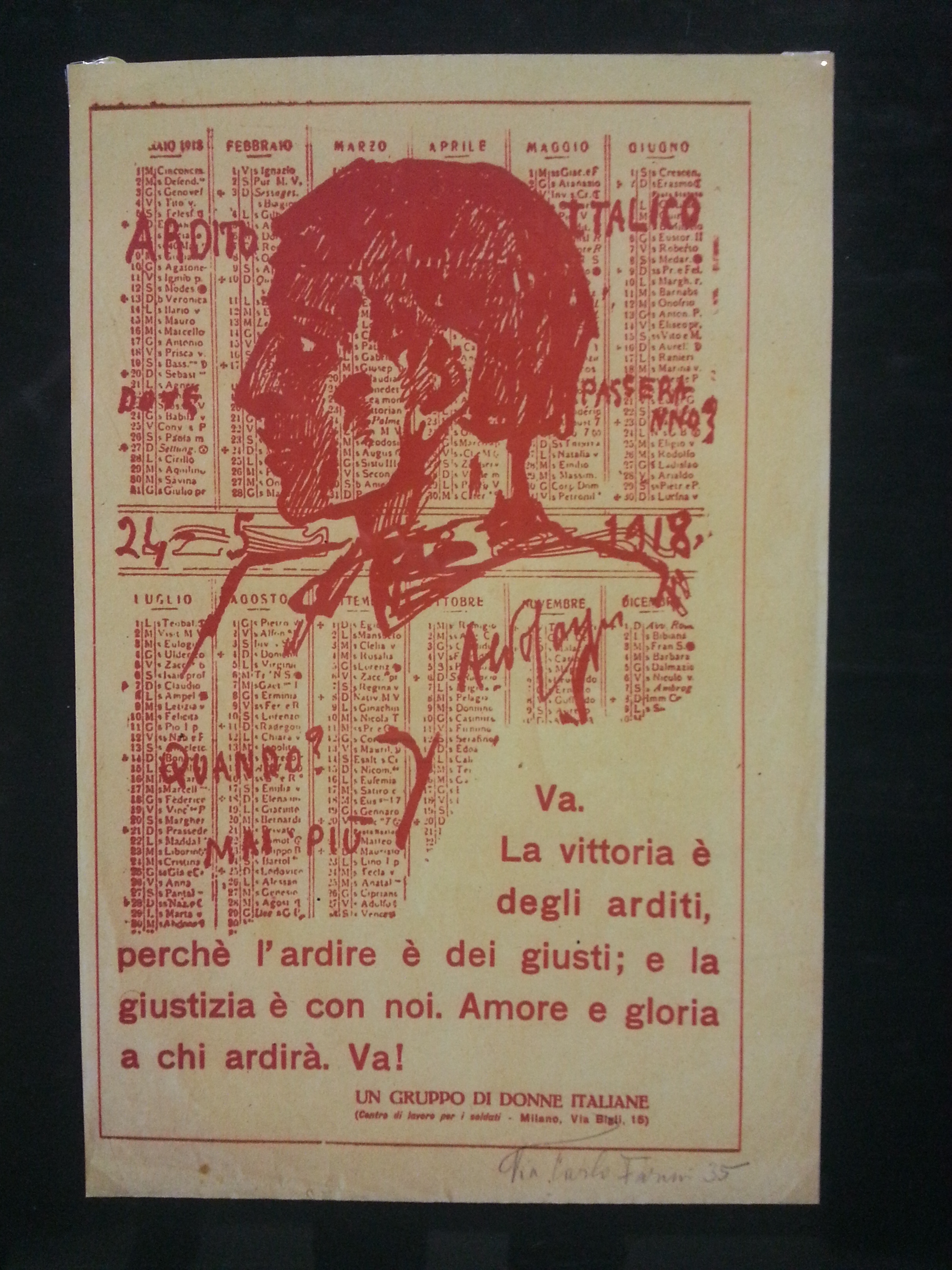 Arditi militar Italian army poster, First World War